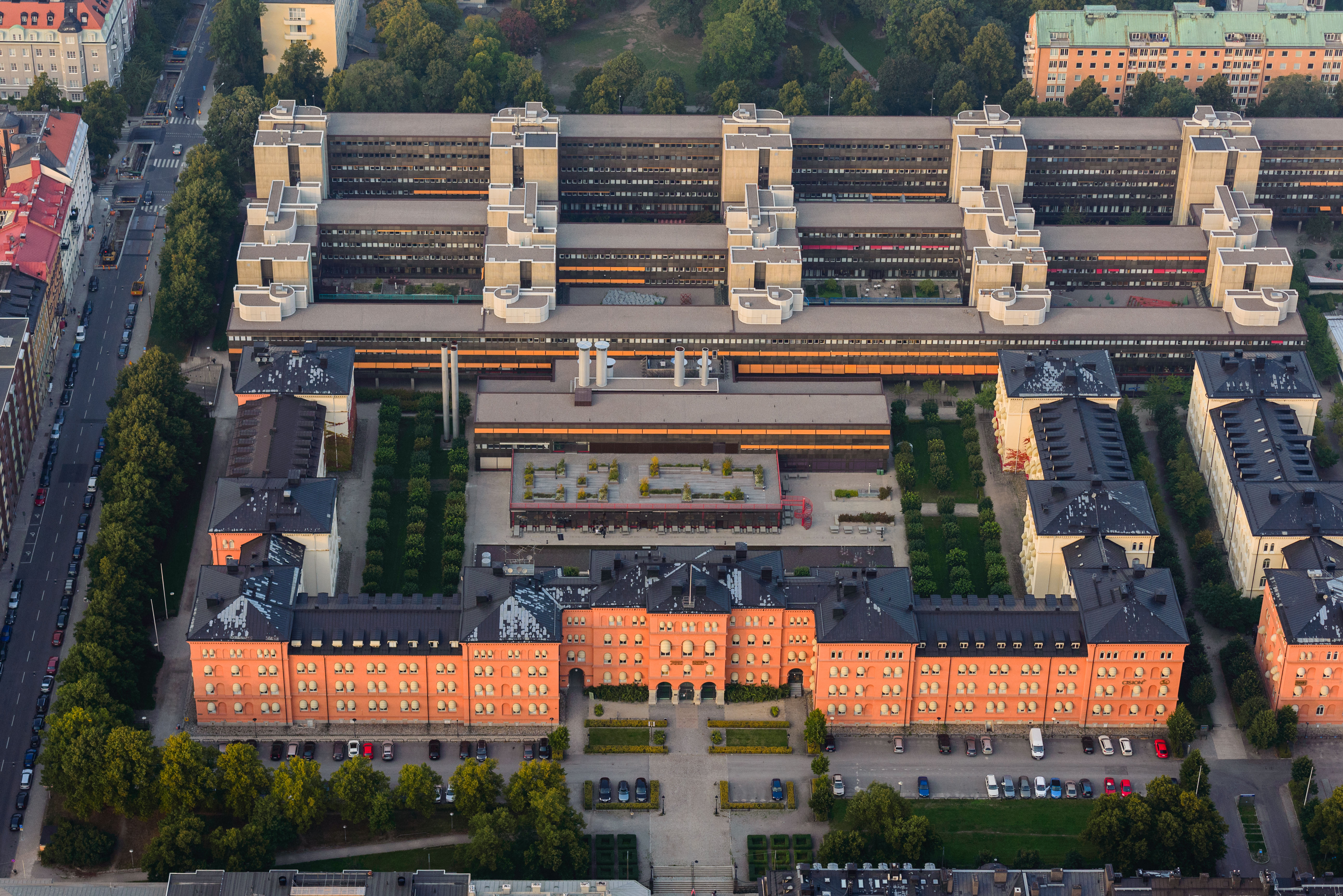 The city block Garnisonen in Östermalm, Stockholm.